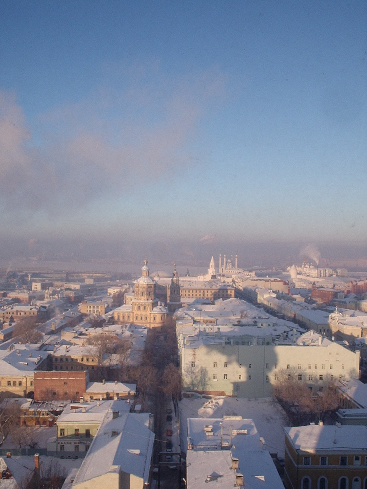 This is a view of Kazan Kremln and city's center from the Fizkorpus, one of the building of Kazan State University. Note that picture were made in uncommon weather: -25C. We can see the majority of power station and no one cloud!